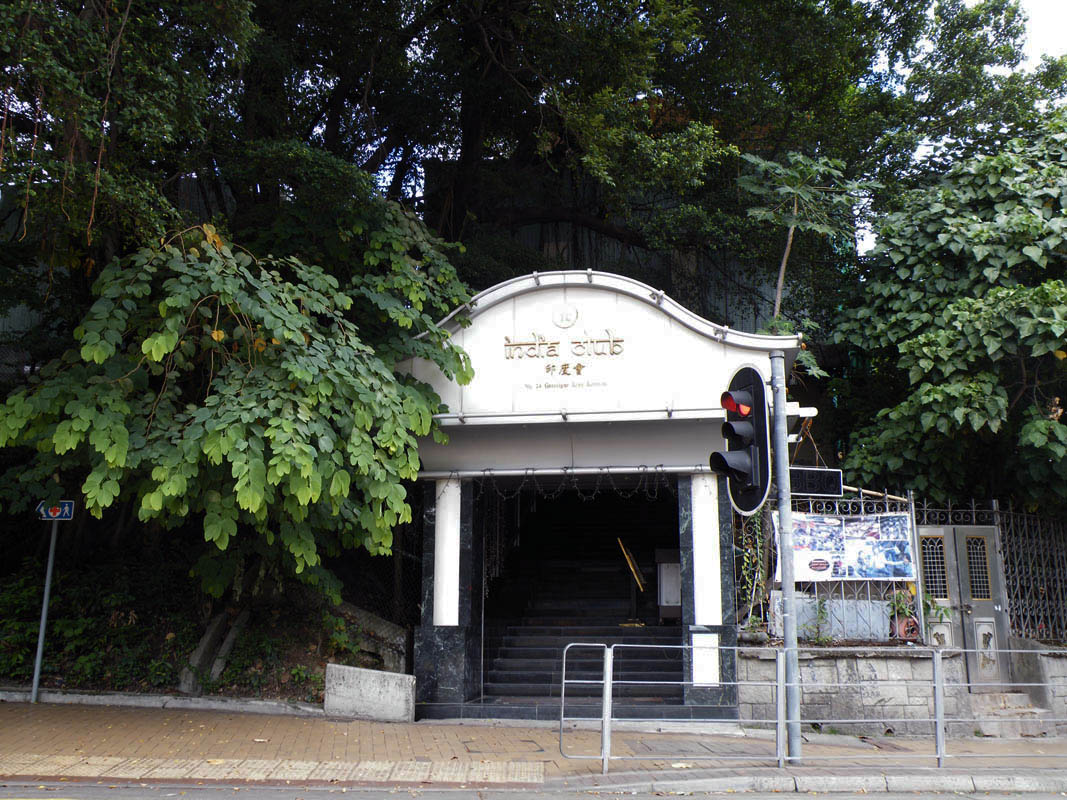 India Club, 印度會 India Club, No. 24 Gascoigne Road, Yau Ma Tei, Hong Kong